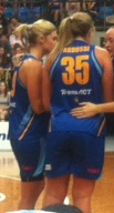 A picture of a Canberra Capitals player taken during the 2011/2012 season.